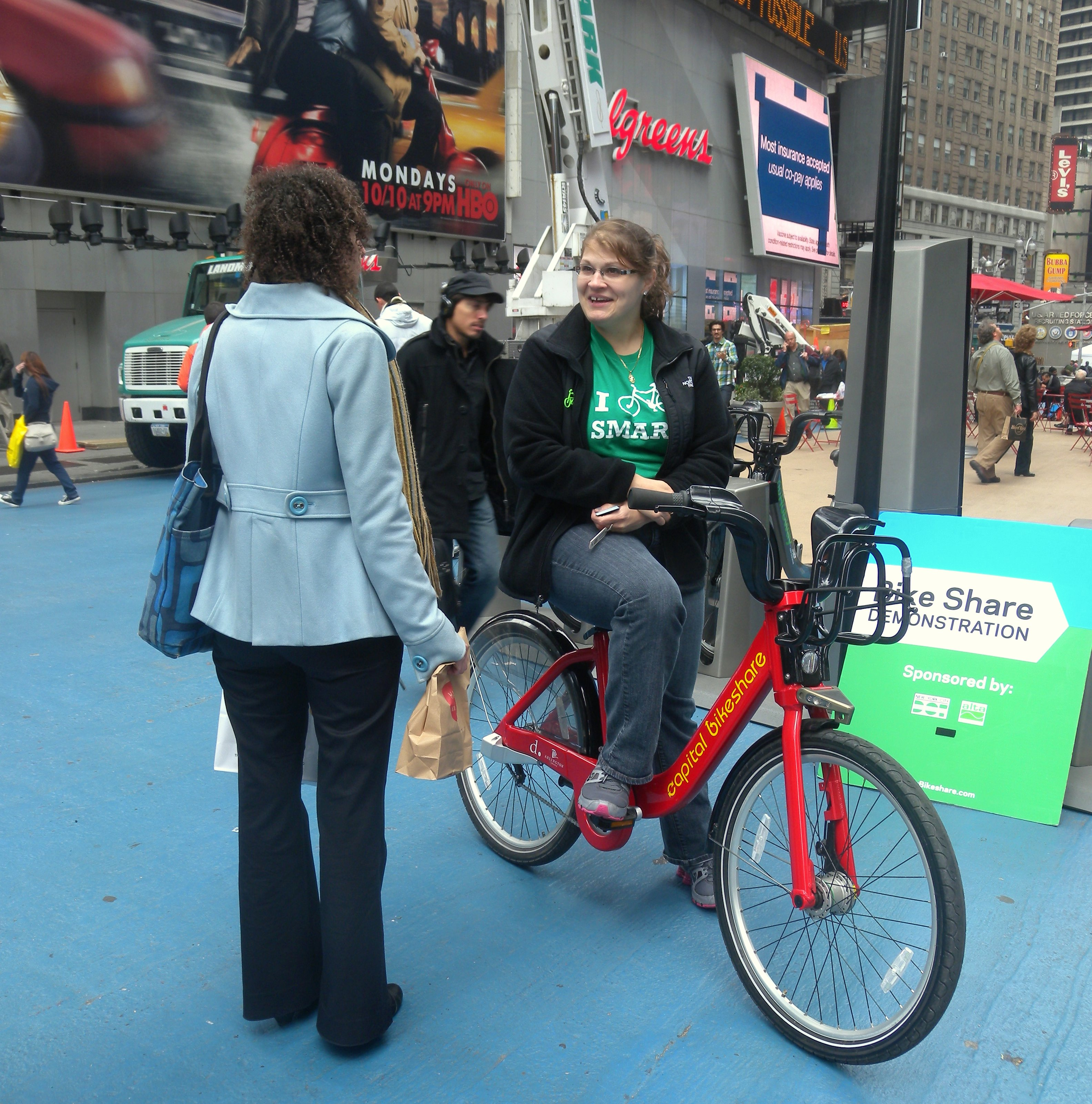 Looking north at woman in front of Times Square Tower on her Capital Bikeshare bike, describing the joys of bike sharing, which at that time was expected to come to NYC in June.